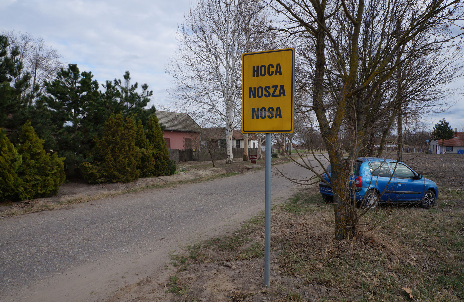 Road sign in the languages of local natives at entry to the hamlet Nosa. Near Hajdukovo, Serbia.